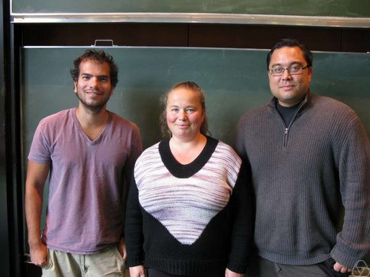 from left: Artur Avila, Svetlana Jitomirskaya, David Damanik, Oberwolfach 2012